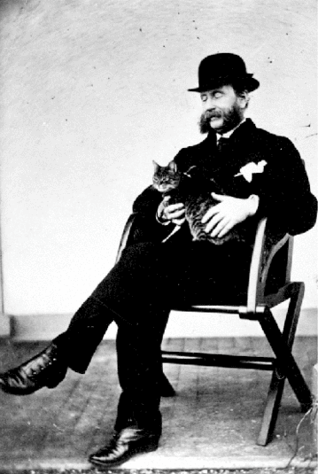 Governor Frederick Seymour and pet cat.